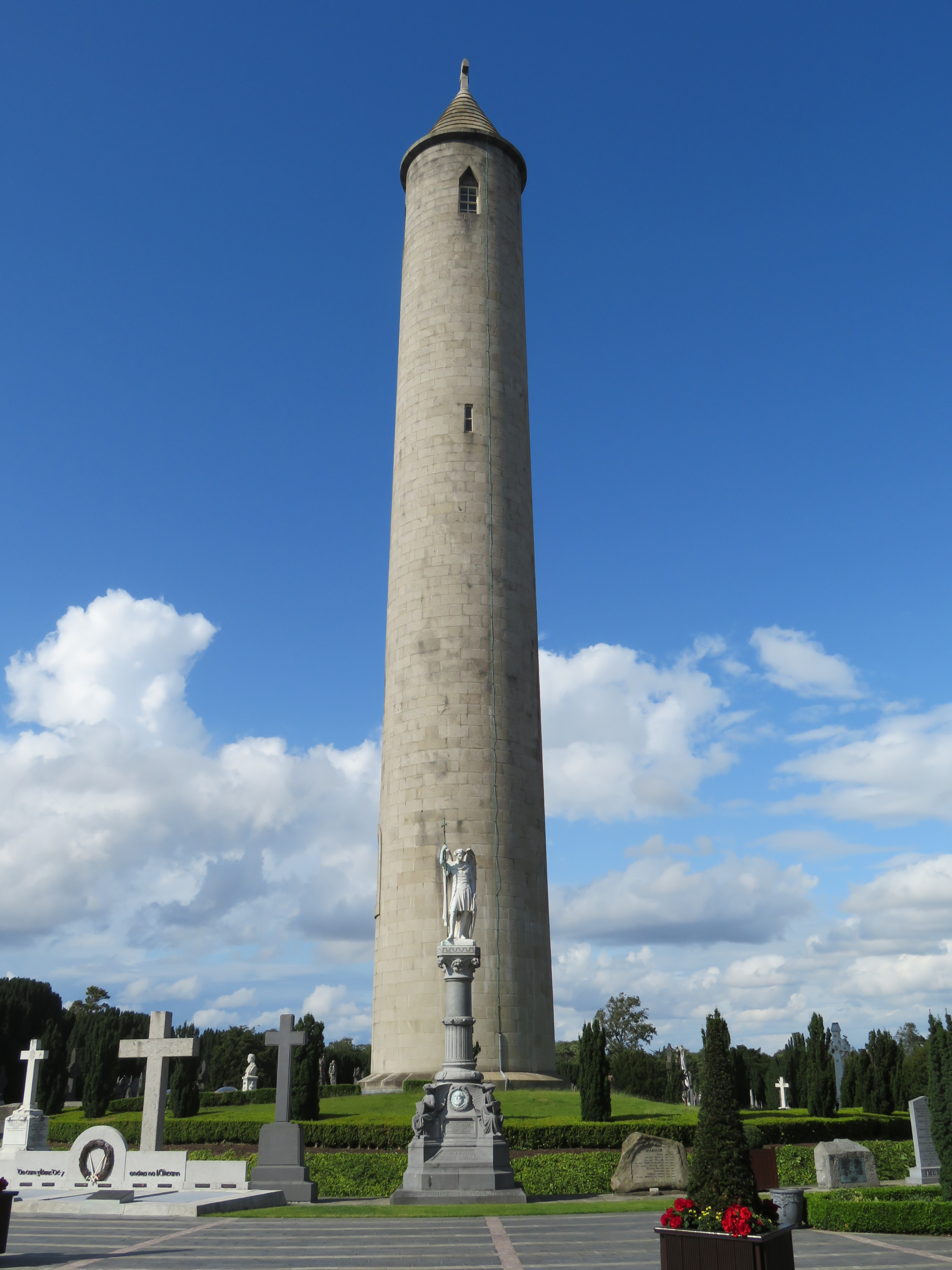 Ireland's tallest round tower, the O'Connell Tower at Glasnevin Cemetery in Dublin, is 55 metres high on ground that is 34 metres above sea level. It was built with granite walls one metre thick in 1869 to honour the Irish political leader, Daniel O'Connell. The interior was damaged by a Loyalist bomb on 17 January 1971 and remained unrepaired and idle for 47 years until it was restored and re-opened on 13 April 2018. The stair climb to the top is an easy 198 steps with panoramic views in all directions of Dublin, the Irish Sea, and the mountains to the south.